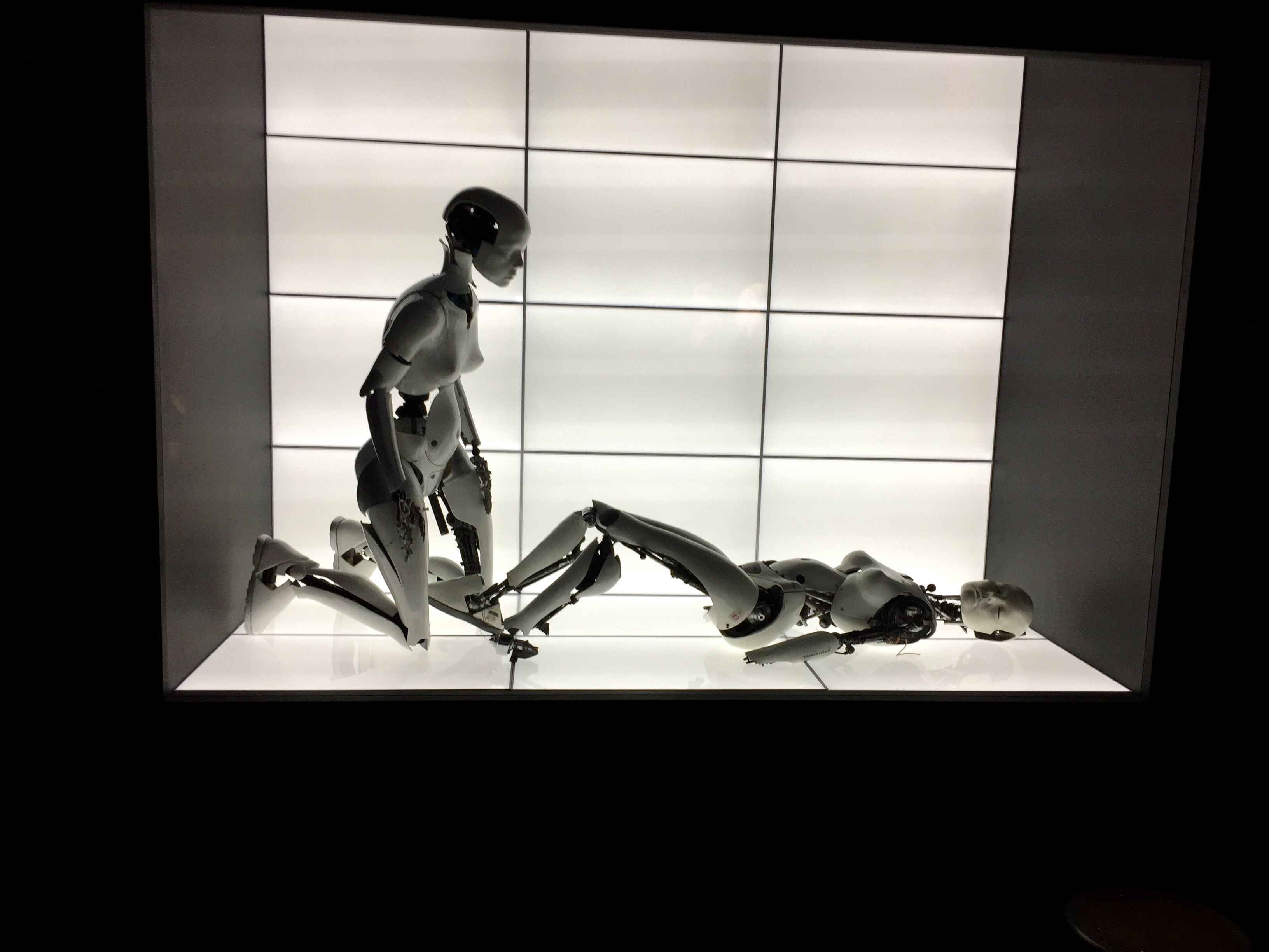 Replicas of the robots from the music video of the single All Is Full of Love, displayed at the Björk retrospective at the Museum of Modern Art, New York City.